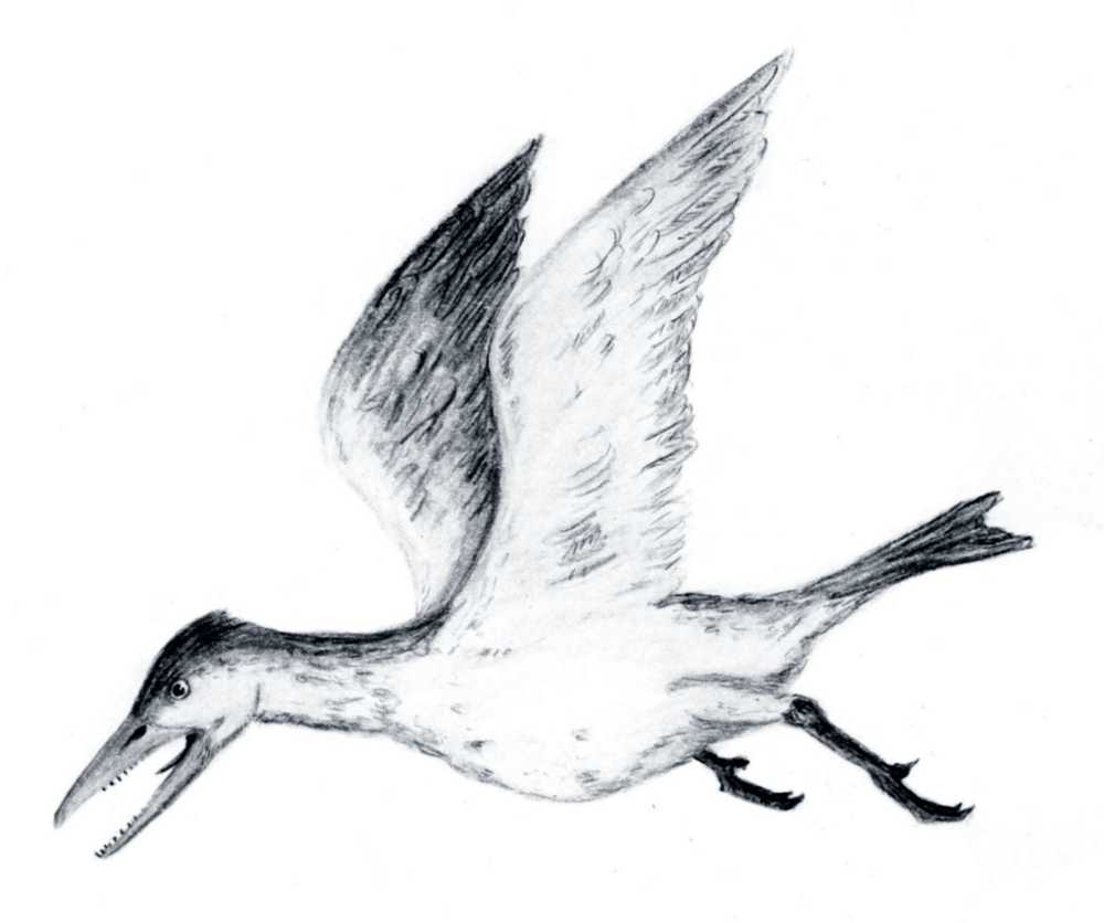 Ichthyornis, pencil drawing